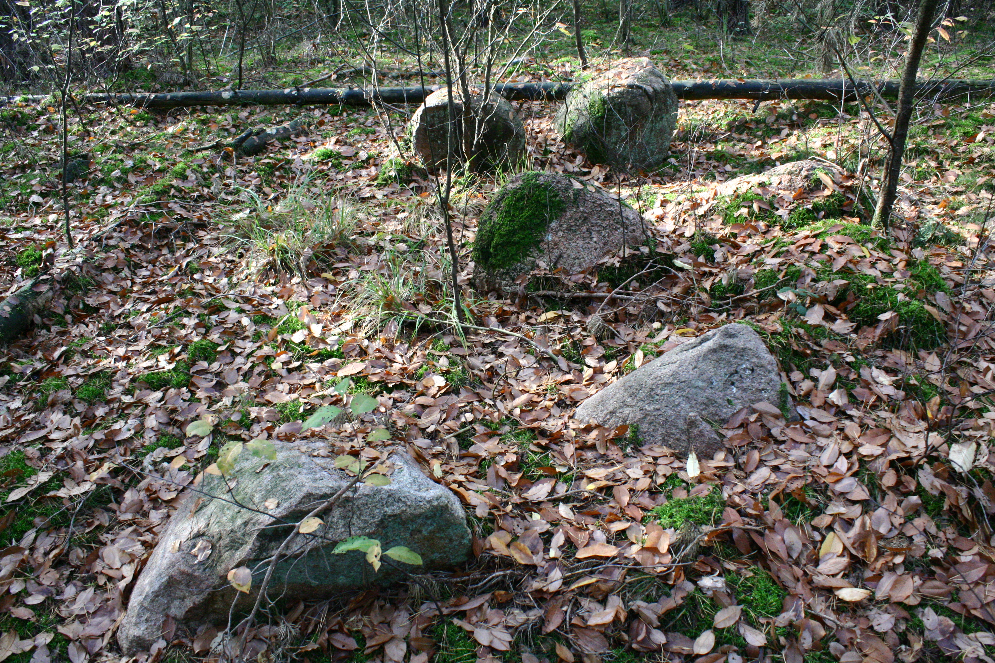 Megalithic tomb Haldensleben II 26